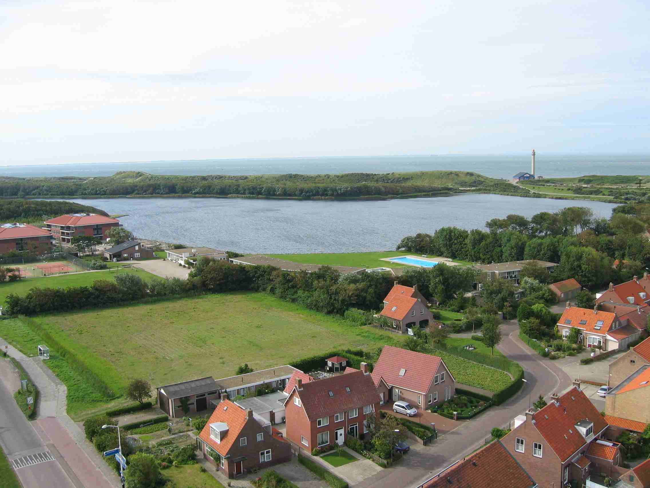 view from the lighthouse in Westkapelle (Walcheren) to the kreek and the scheld